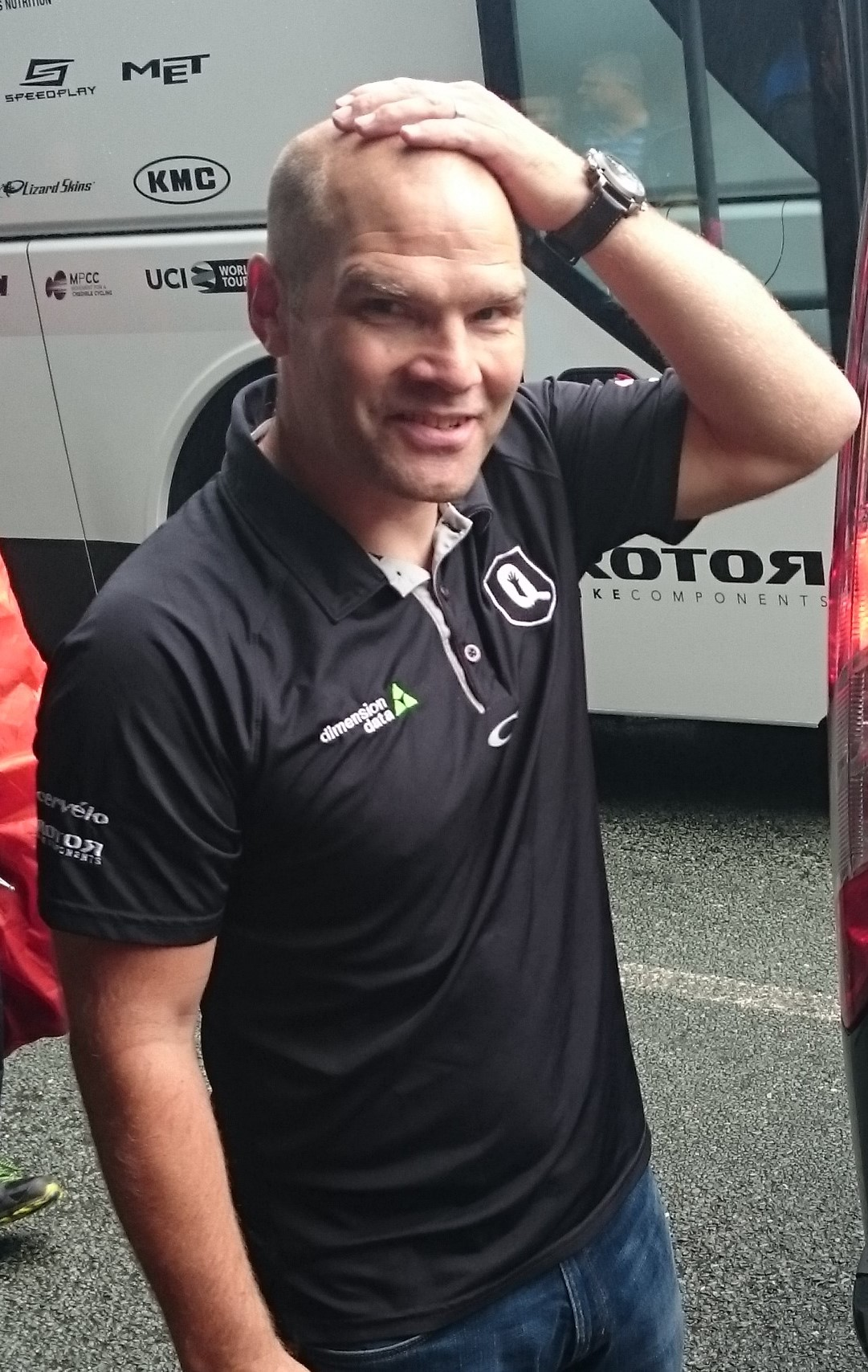 Roger Hammond (Team Dimension Data directeur sportif), after Stage 2 of the 2016 Tour of Britain in Kendal on 5 September 2016.